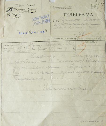 Telegram of Ivan Nelchinov, speaking of liberation of Struga and Ohrid durinf Great War